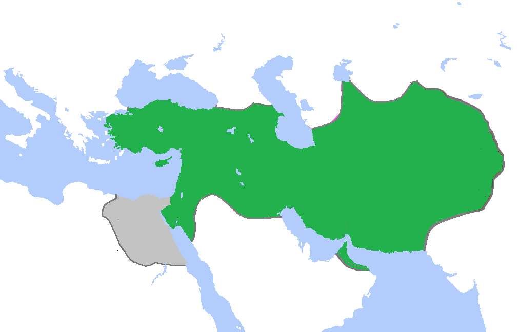 achaemenid expansion by cambyses